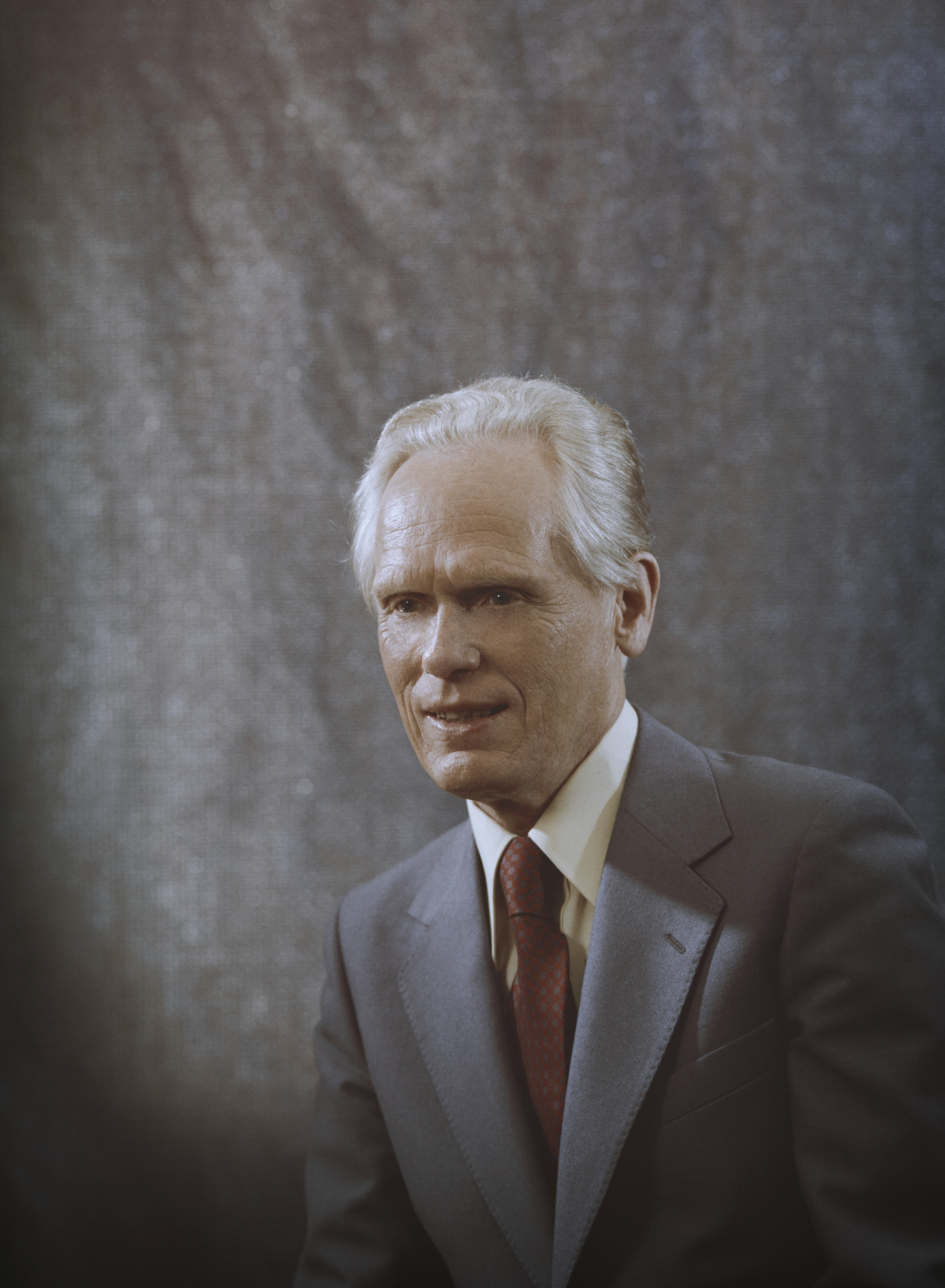 Photograph of the Finnish theologian and psychiatrist Asser Stenbäck (1913–2006).